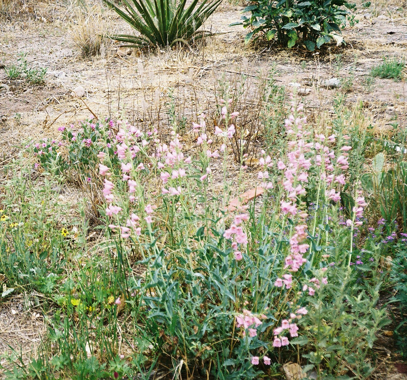 Xeriscape with Penstemon palmeri (pink), Berlandiera lyrata (yellow), Verbena wrightii (purple), Yucca baccata (left, background), Datura wrightii (right, background). May, 2006. JerryFriedman 20:22, 9 June 2006 (UTC)